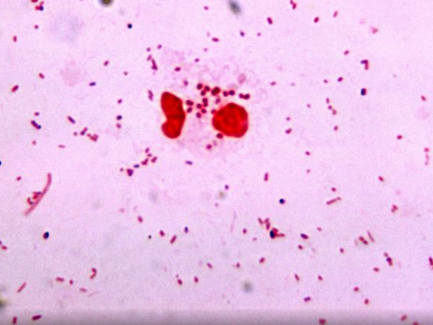 Picture of the diplococcus formation found in the species N. gonorrhoeae.